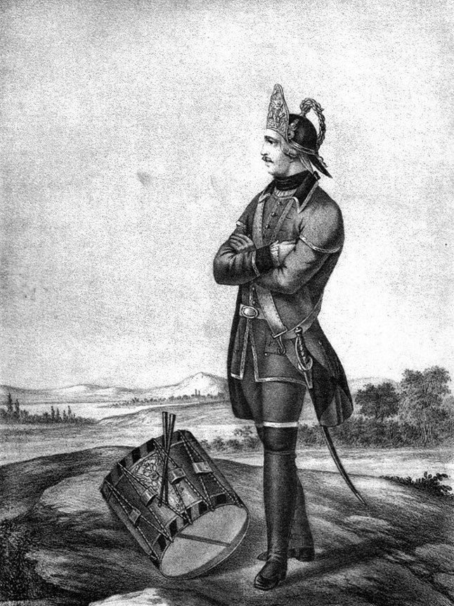 Drummer of bombardier regiment, 1757-1758.